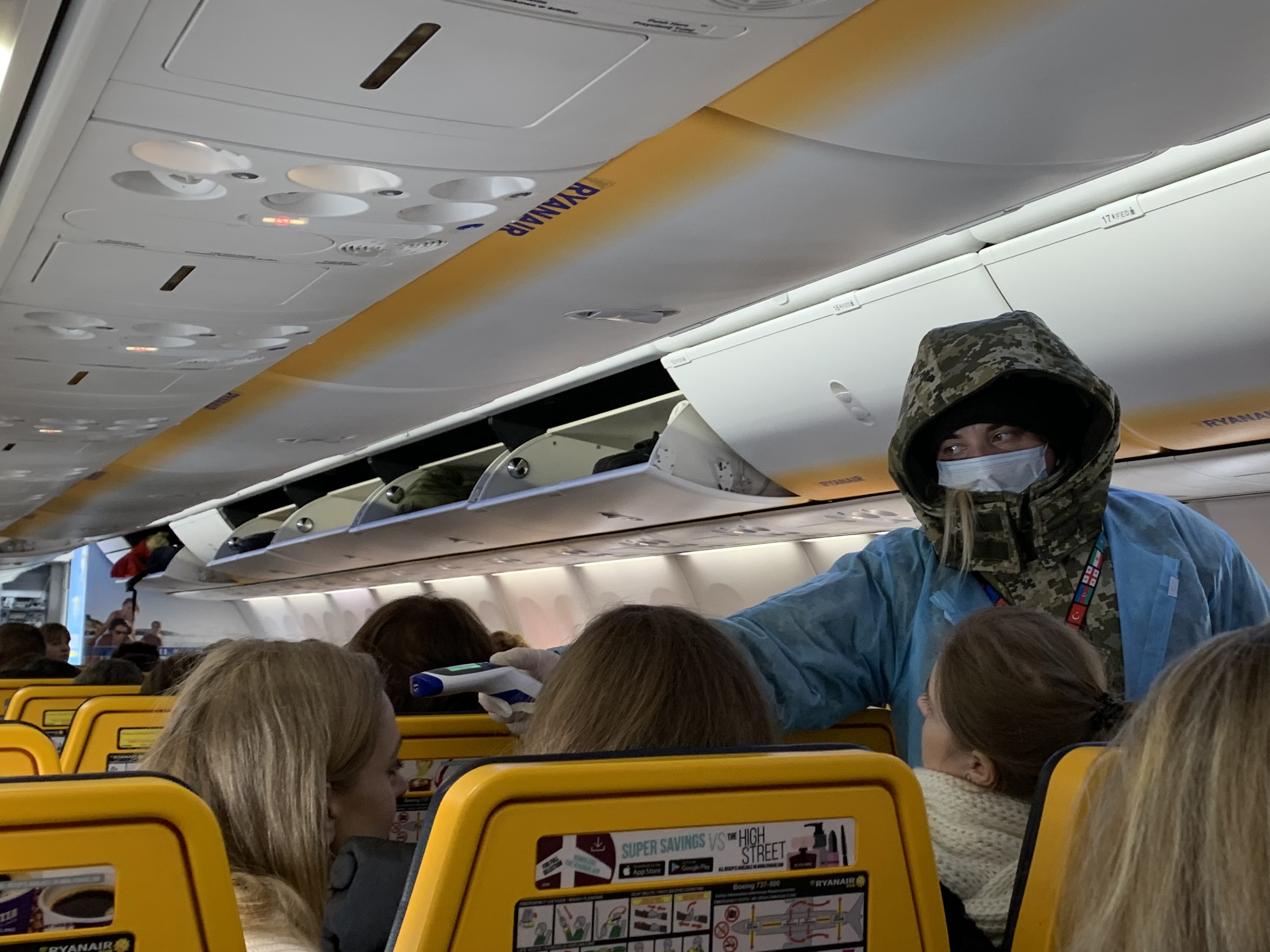 Staff monitoring passengers' body temperature on board of the plane in Boryspil International Airport, Kiev, during 2019–20 coronavirus outbreak.